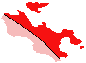 Map of Praslin Island, Seychelles showing Baie Sainte Anne District; created with the GIMP. Made by User:Acntx.